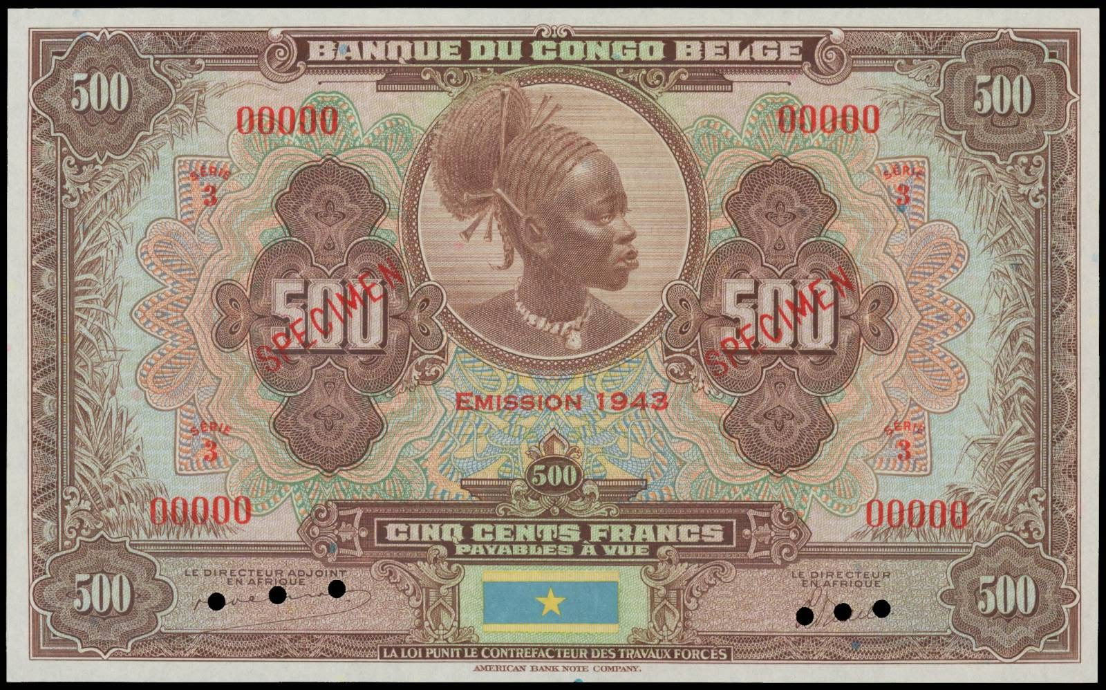 Obverse of 500 Belgian Congo francs. The obverse features the portrait of Mangbetu woman and flag of Congo Free State at lower center. The Mangbetu hairstyle is further developed to accentuate the shape of the head. After much of the hair is braided, a number of the strands are skillfully interwoven with straw to form a cylindrical design which is secured to the scalp with pins.